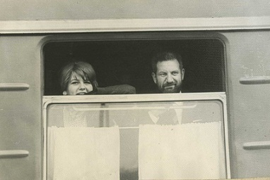 Aronov and Daughter on the Warsaw-Moscow train